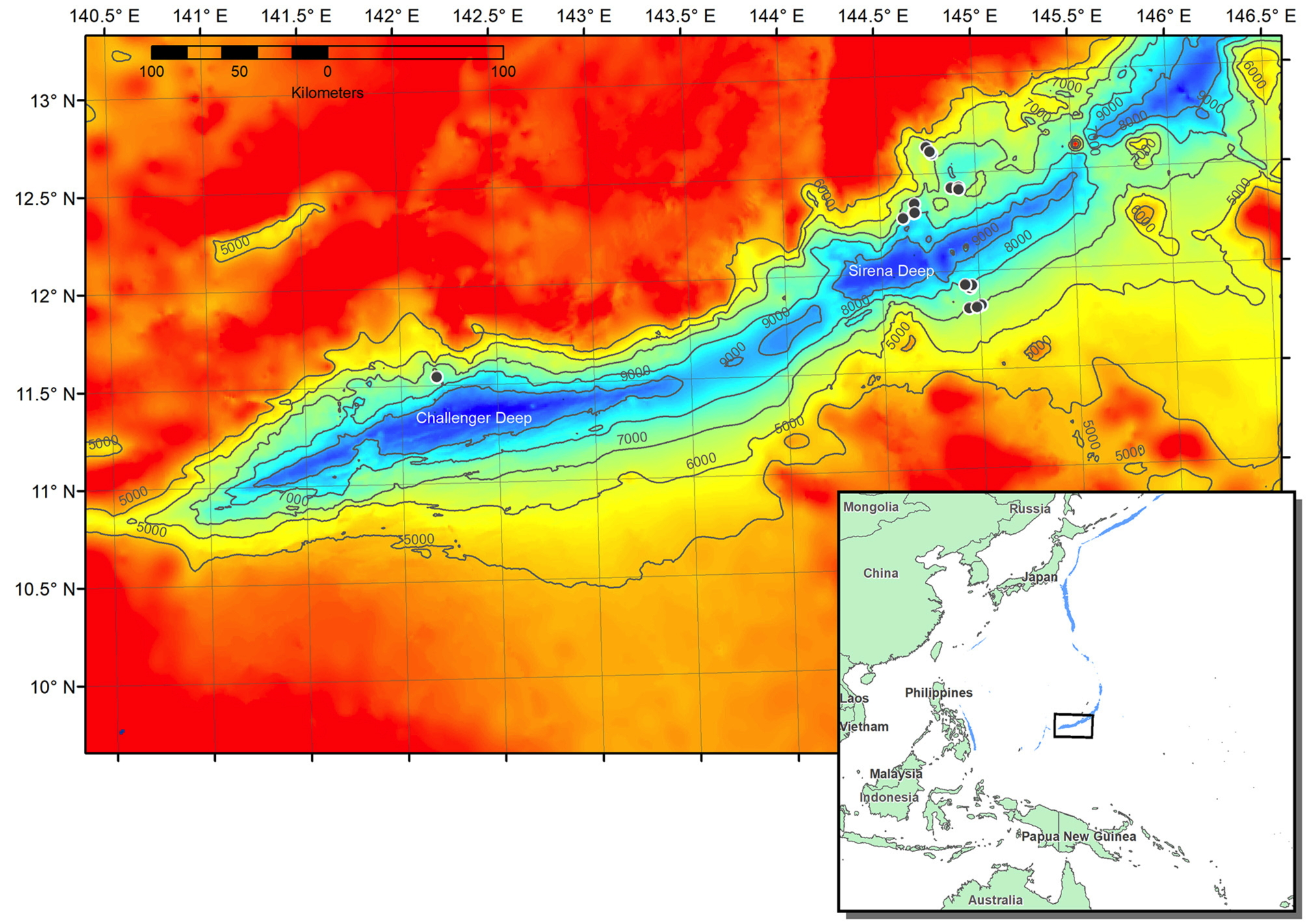 Map of collection locations of Pseudoliparis swirei within the Mariana Trench. Isobaths are added between 5,000 and 9,000 m at 1,000 m intervals.